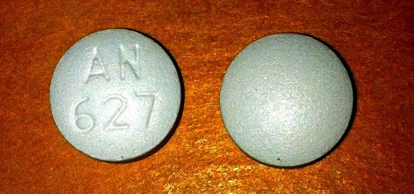 50 mg Tramadol HCl tablets (generic Ultram) marketed by Amneal Pharmaceuticals.